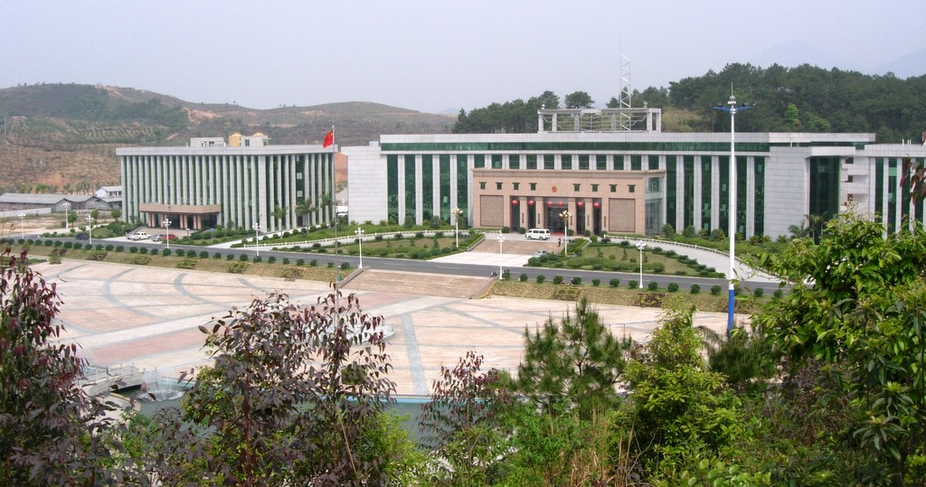 Fogang government building